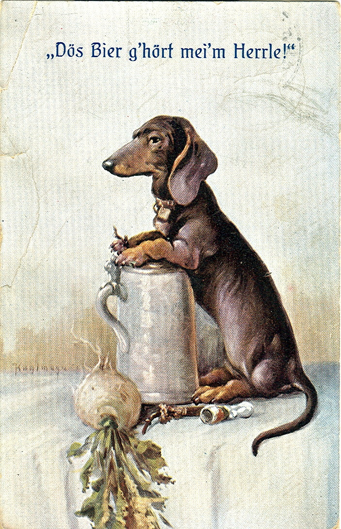 Postcard, dated 23.3.1917. Title: "This beer belongs to my master!"